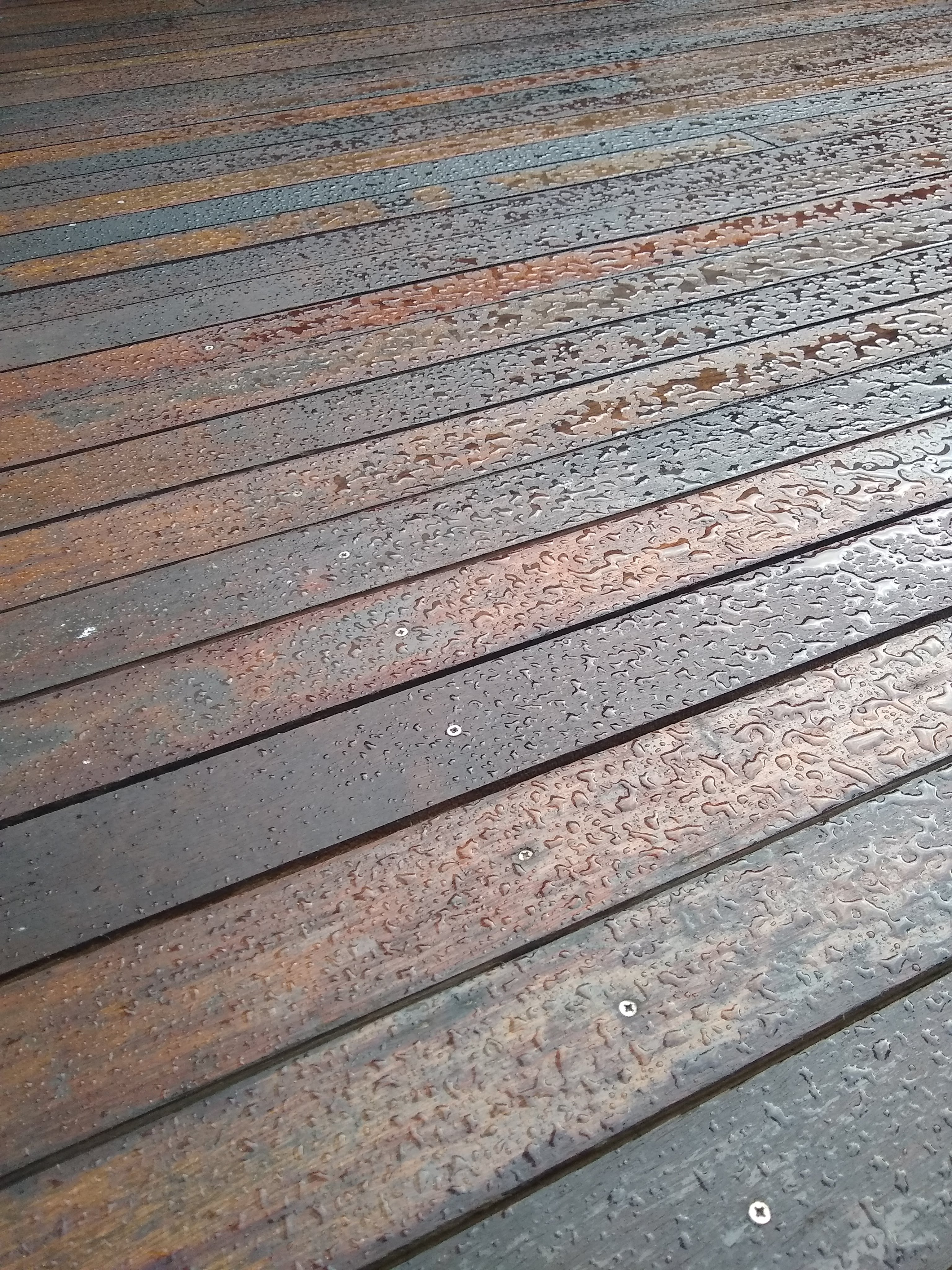 Decking made from reclaimed Keruing floorboards. Covered in rain after a brief shower at Edinburgh Student Housing Co-operative, Scotland. Has been treated with linseed oil.